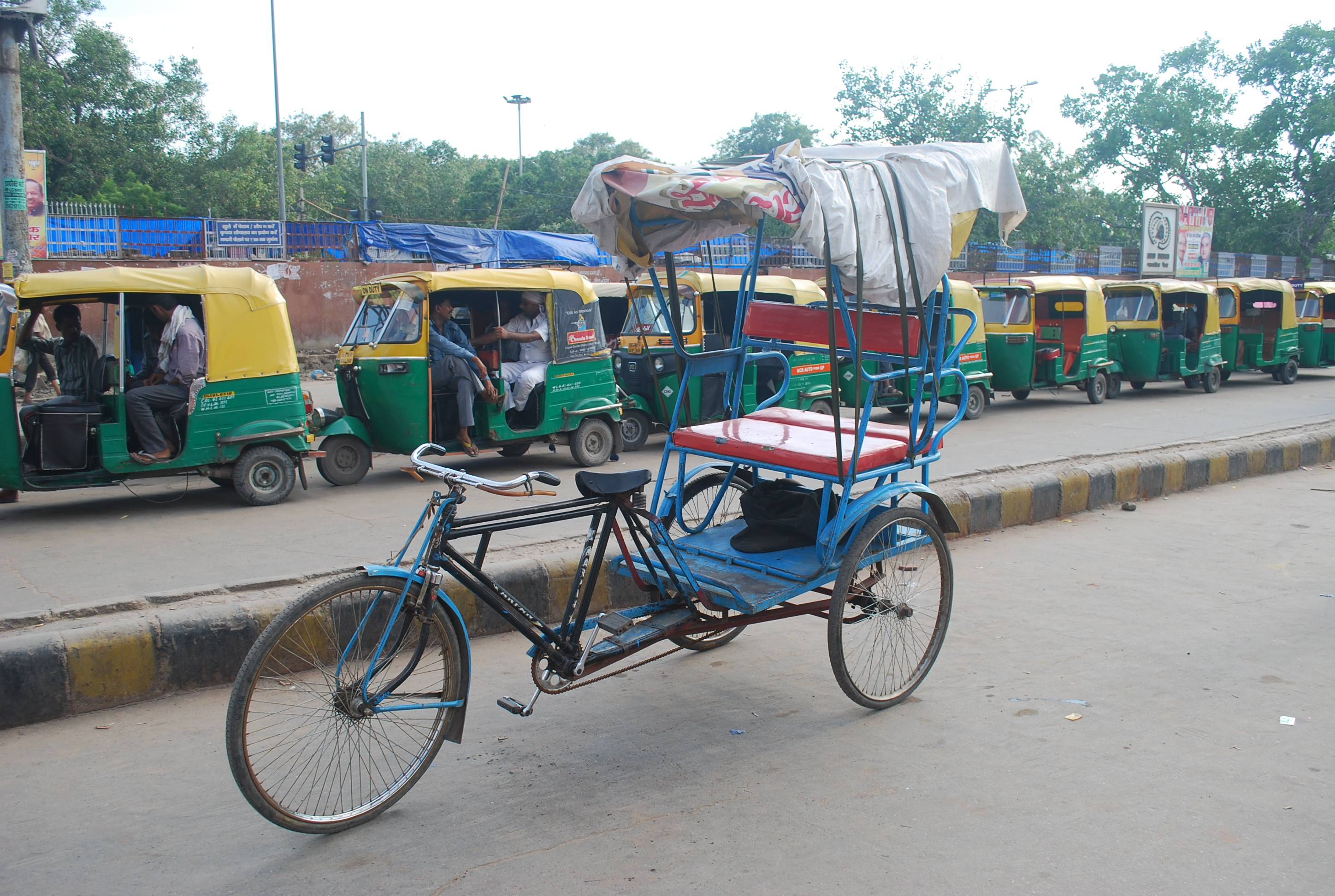 Indian cycle rikshaw